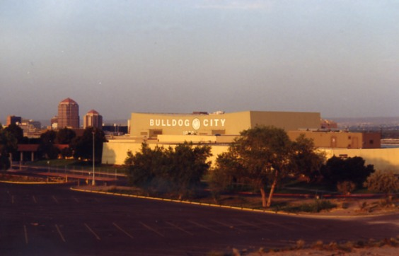 Albuquerque High School 1998